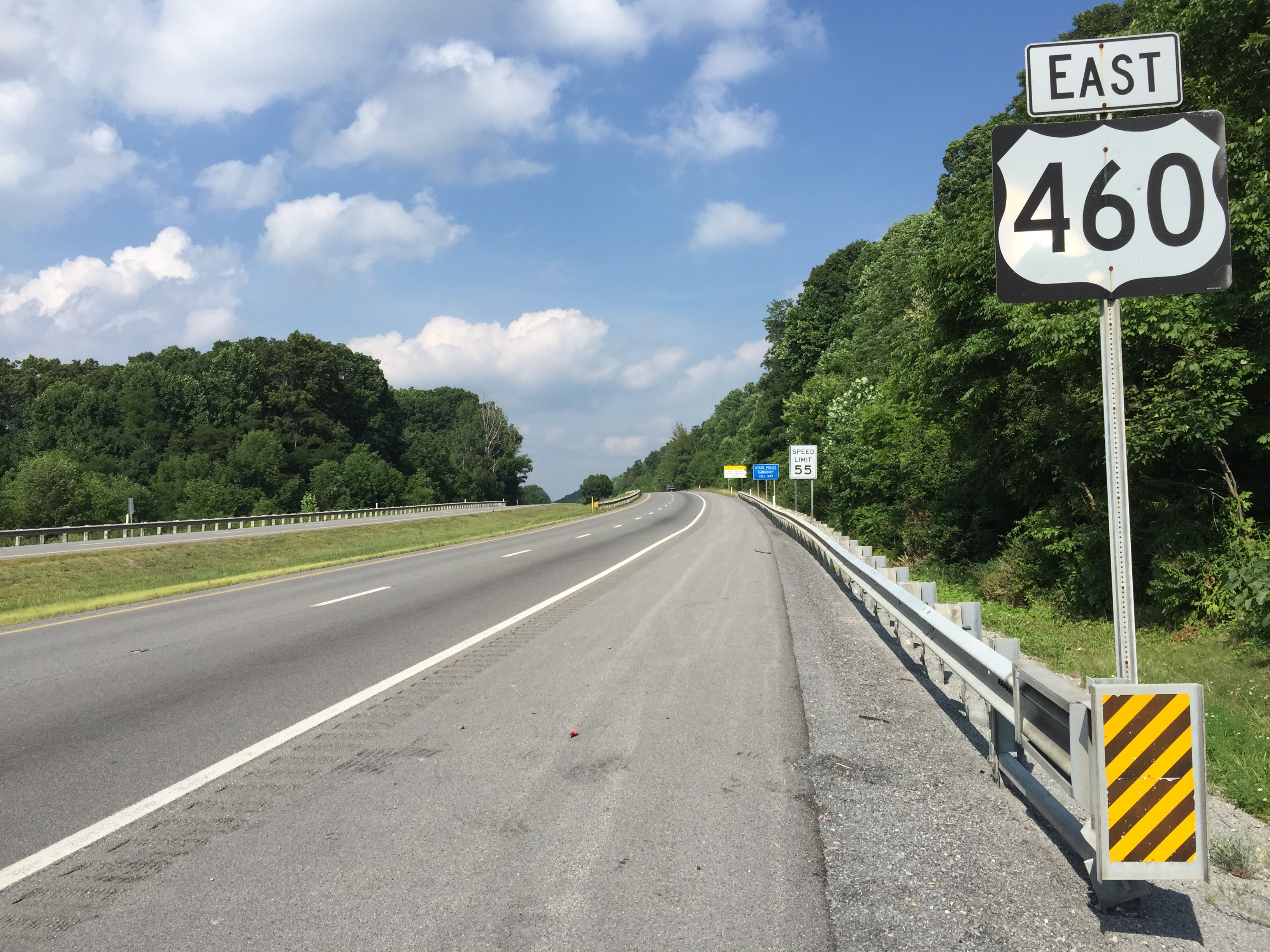 View east along U.S. Route 460 at Cherry Drive (West Virginia State Route 598) in Bluefield, Mercer County, West Virginia